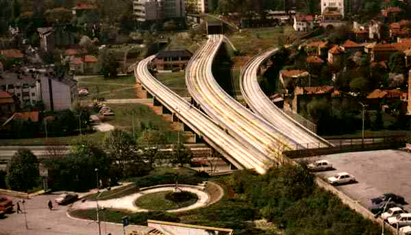 Belgrade railway junction viaducts